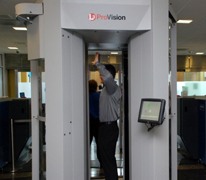 TSA ProVision Xray machine screening a person